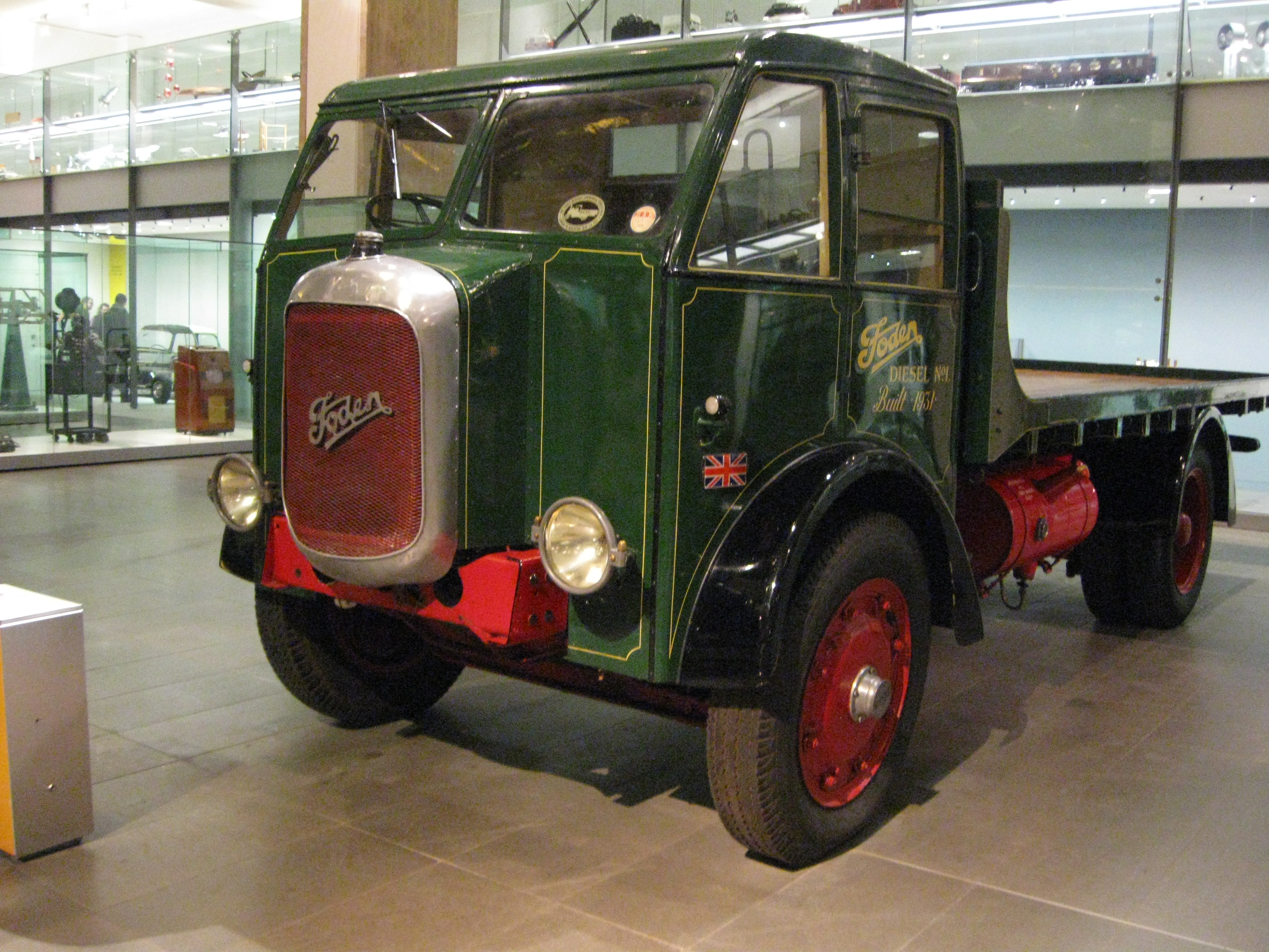 Foden F1 1931 The Foden F1 was the first commercially successful lorry with a diesel engine. The engine was manufactured by Gardner. Diesel engines proved to be cleaner and simpler than steam and more economical than petrol.